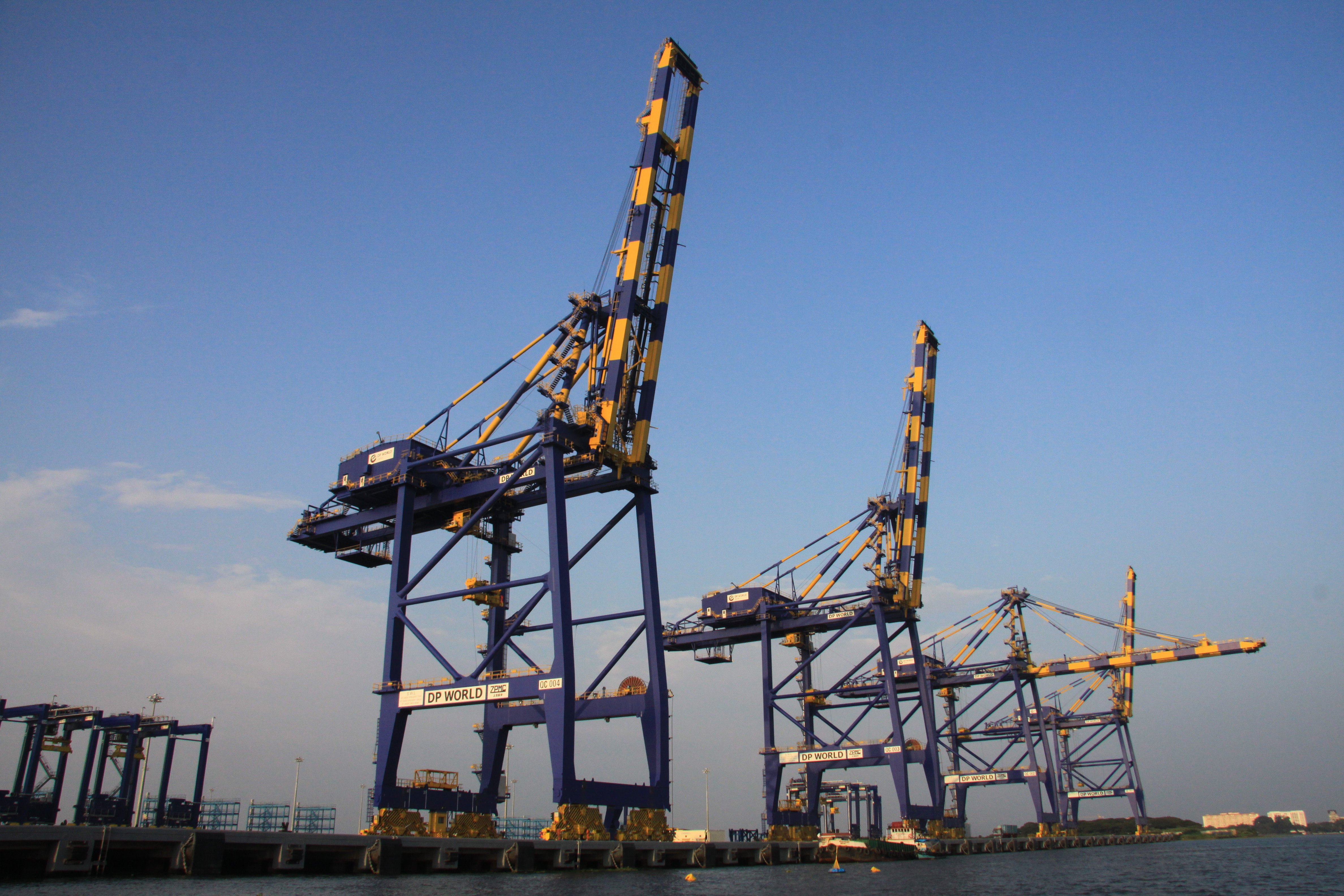 Picture of crane at the Vallarpadam Terminal